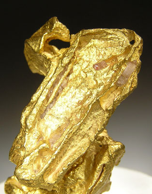 Gold Locality: Victoria Gold Mine, Montacute, South Mt Lofty Ranges, Mt Lofty Ranges, South Australia, Australia (Locality at ) Size: miniature, 3.6 x 2.2 x 1.7 cm Gold (one inch crystal!) The hoppered crystal on this Australian gold specimen measures 2.8 cm in length � over an INCH! And it displays as if on a natural pedestal! Though it is not razor-sharp, it is quite clearly a crystal, and gold crystals of this size are vanishingly rare from ANY locality but especially from this location better known for lumpy nuggets. The crystal sits up beautifully in relief from the rest of the specimen and is exceptionally 3-dimensional. The specimen is quite hefty, weighing 1.2 ounces, so there is substantial gold value here as well. A superb gold mini!